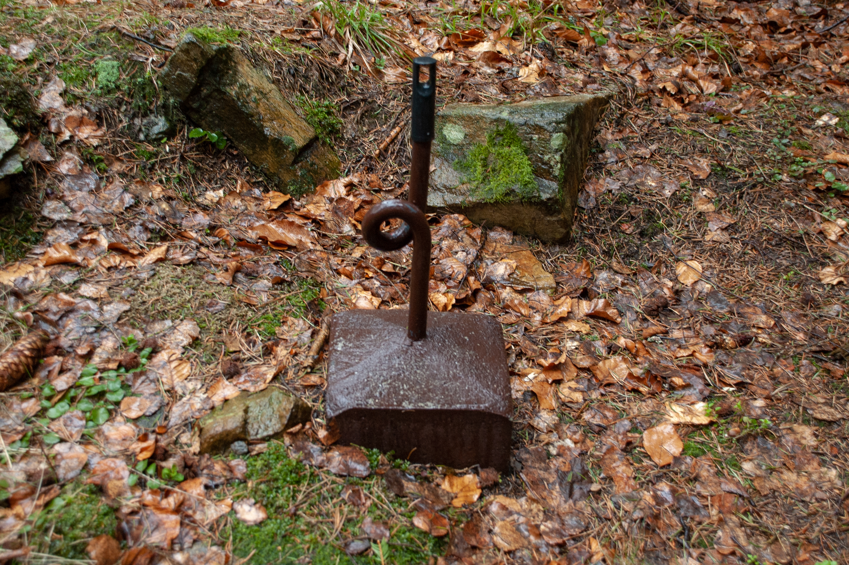 This image was created as a part of Editaton Prachatice (Czech).